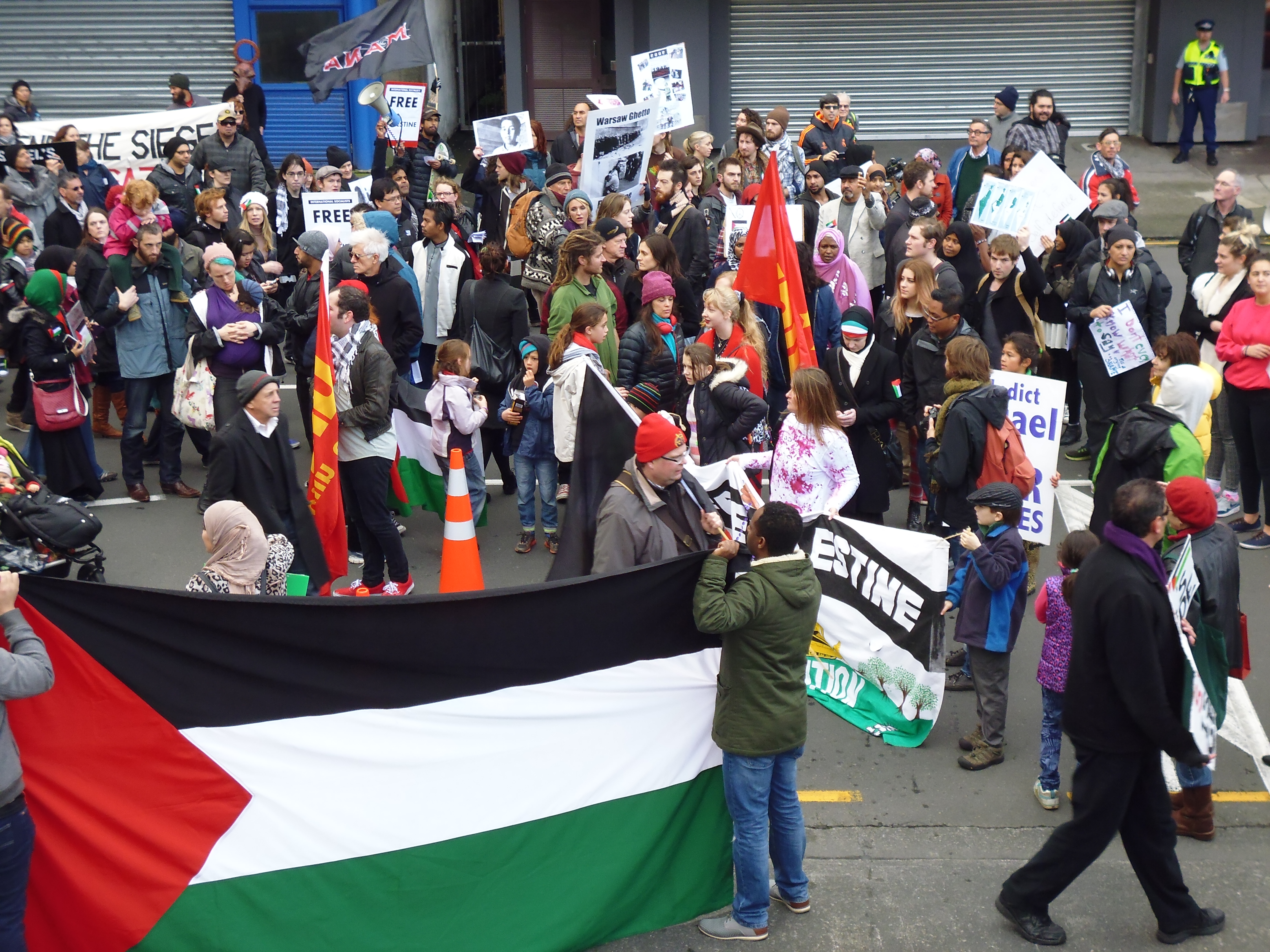 On 2 August 2014, a peaceful protest march was held in Wellington, New Zealand to protest the ongoing bombing of the Gaza strip by Israeli forces. Students for Justice in Palestine organised the march, while several other organisations (including political parties, unions, and socialist groups) had representatives present. The march began on Cuba Street and terminated at the Rabin Memorial near the Wellington City Library. The streets involved in the march were temporarily closed by police during the march. Speeches were made by a wide variety of people at both the origin and terminus of the march. At the terminus of the march, stones with the names of people killed in Gaza during the 2014 conflict were laid next to the Rabin Memorial. Some protesters called for the Rabin Memorial to be removed entirely. The march was reasonably well attended, with several hundred participants. The weather held out for the duration of the march and speeches.